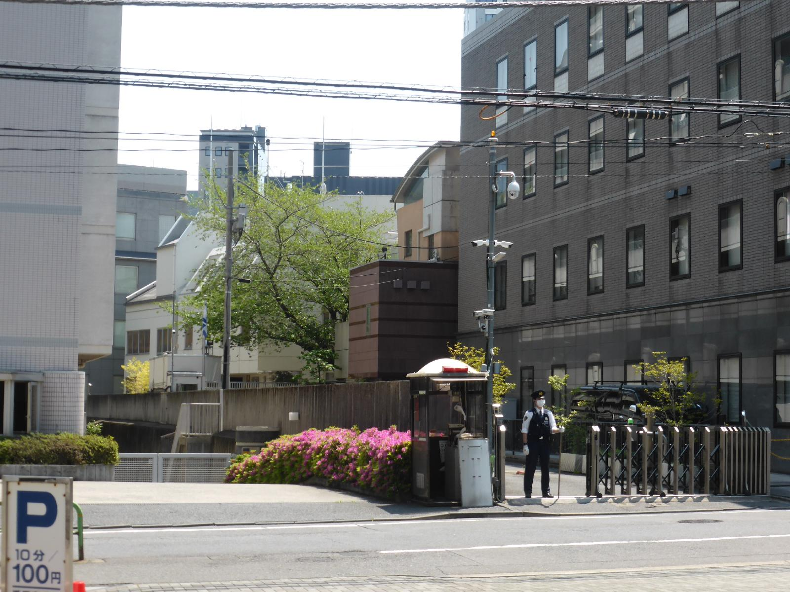 周囲が建物に取り囲まれているイスラエル大使館